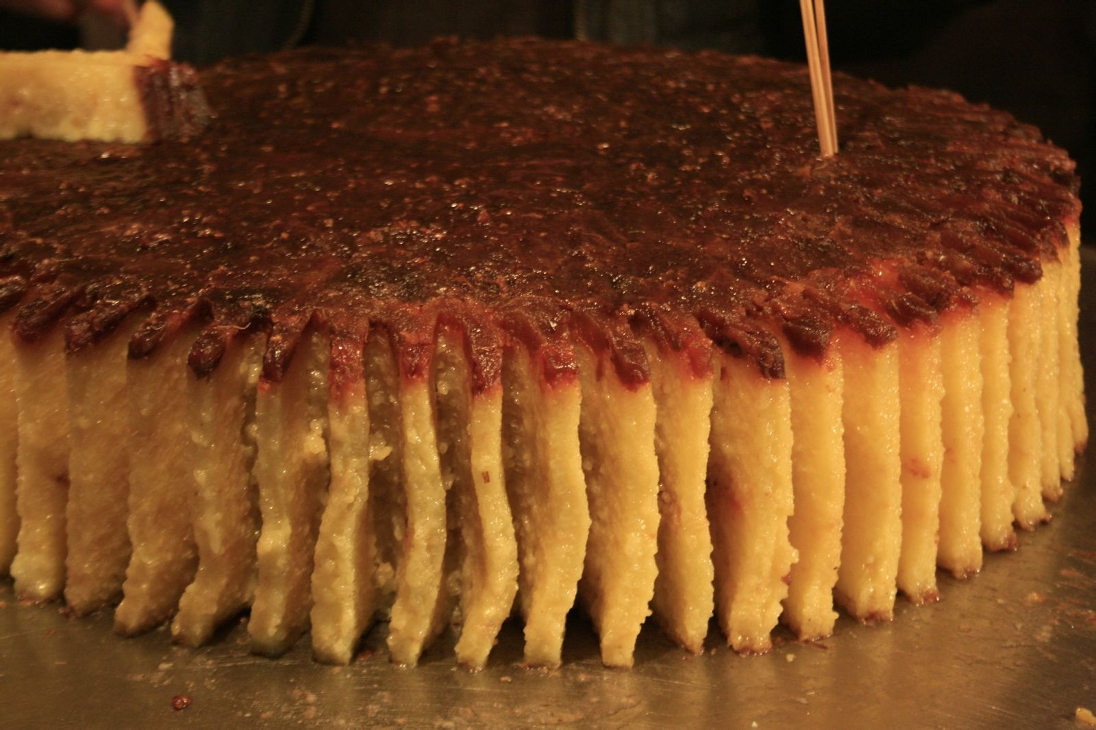 Qiegao, a chinese cake made of glutinous rice